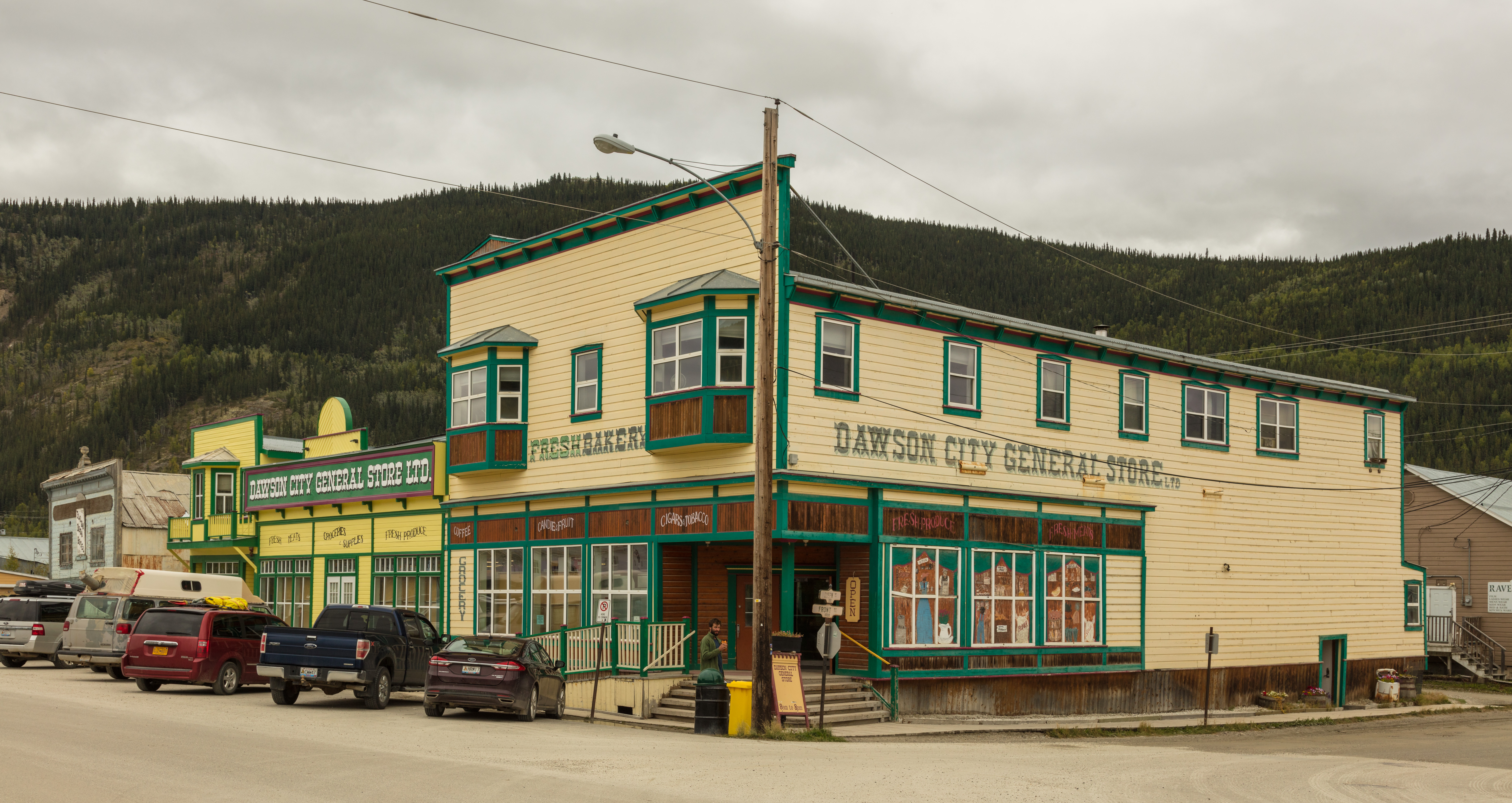 Shop in Front st, Dawson City, Yukon, Canada